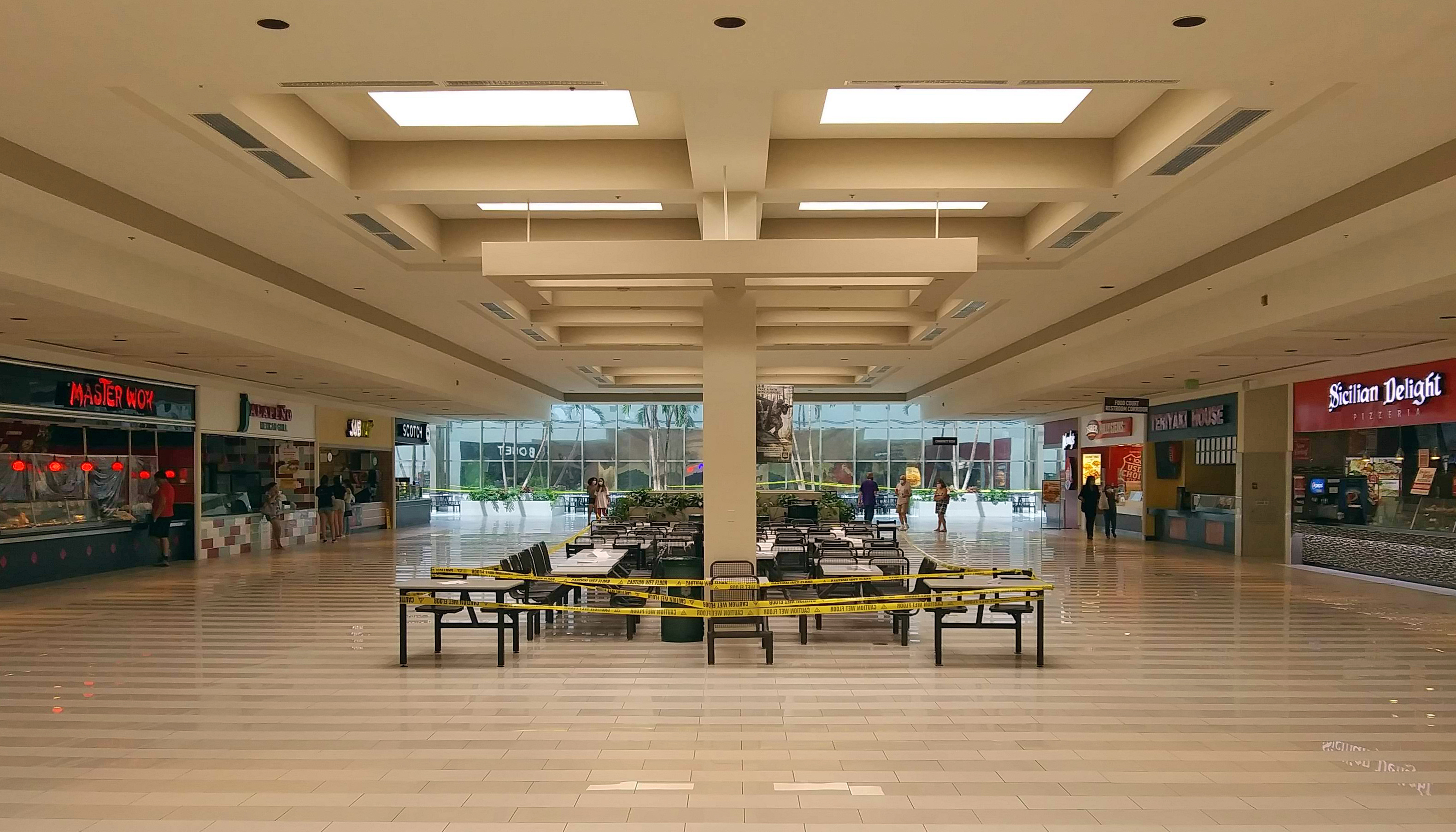 Food court at Galleria at Crystal Run shopping mall, outside Middletown, NY, USA, after mall's reopening during the COVID-19 pandemic. Food outlets are open, but seating, which would normally fill most of this frame, has been removed or closed off.